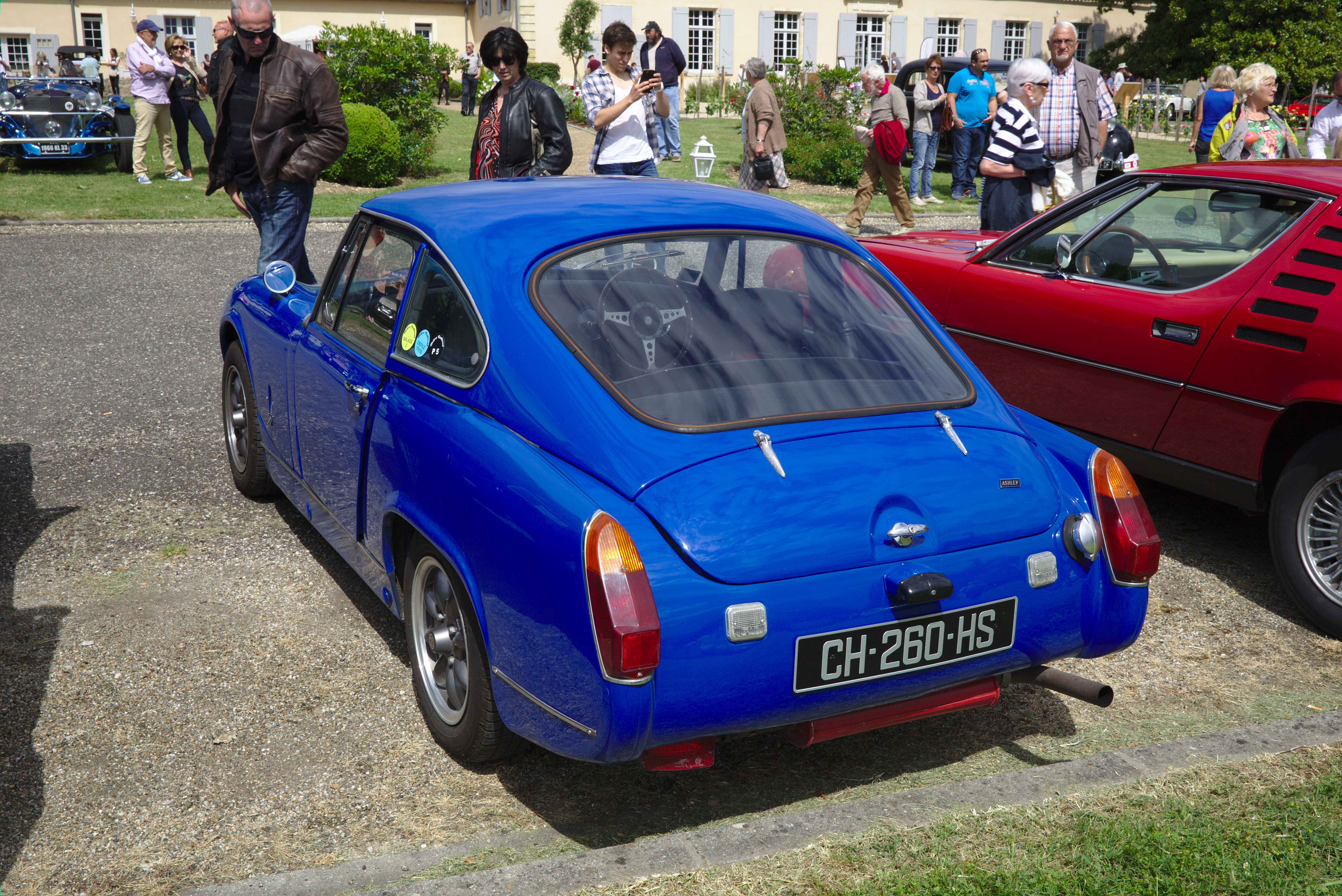 Ashley